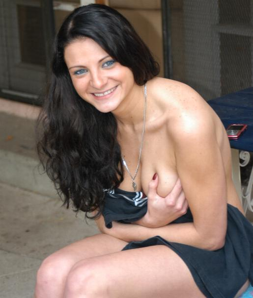 March 20, 2007: Shoots